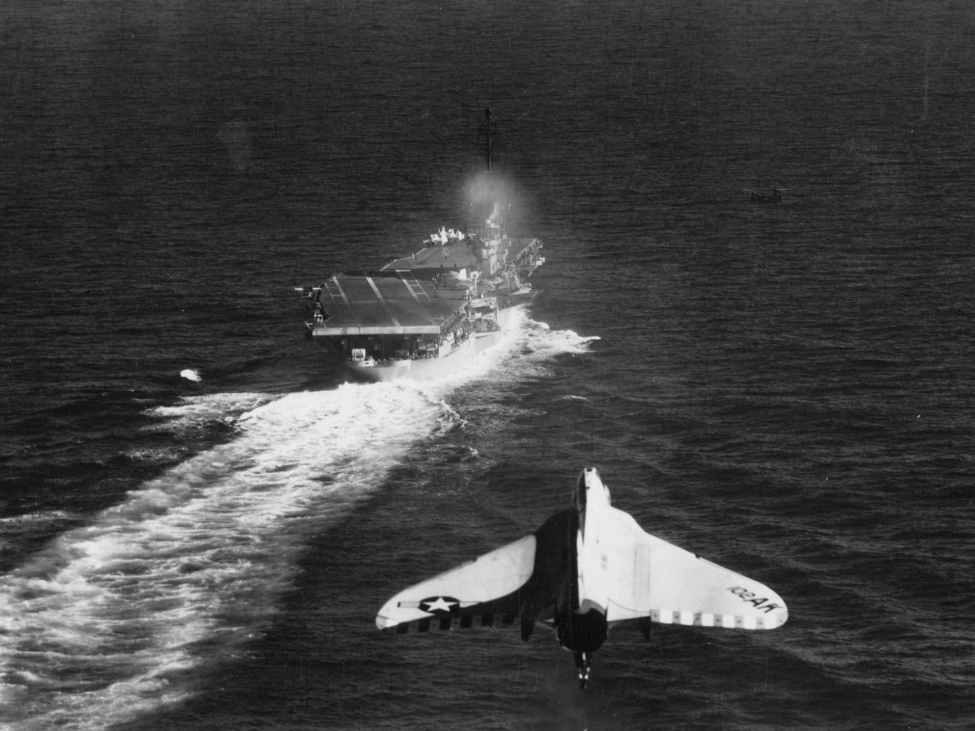 A Douglas F4D-1 Skyray of Fighter Squadron 13 (VF-13) "Night Cappers" approaching the U.S. Navy aircraft carrier USS Essex (CVA-9). VF-13 was assigned to Carrier Air Group 10 (CVG-10) on Essex´s last deployment as an attack carrier to the Mediterranean Sea from 7 August 1959 to 26 February 1960.